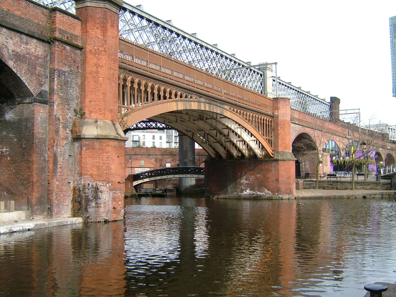 The Bridgewater Canal was commissioned by Francis Egerton, 3rd Duke of Bridgewater, to transport coal from his mines in Worsley to Manchester. Castlefield was the Manchester basin, and it was watered by the River Medlock. In 1802 the Rochdale Canal joined here at Dukes Lock. In the 1830s, the railways arrived at Liverpool Road railway station, and then in 1848, 1877 and 1894 Castlefield was dissected by the great railway viaducts. The central cast iron arch of the Manchester South Junction & Altrincham 1848 viaduct, with 1877 wrought iron Cheshire Lines Cornbrook viaduct obscured, and the massive piers of the 1894 disused Great Northern Viaduct behind. Across the basin there is a small Briggs footbridge, then the brick arches of the Salford branch 1848 viaduct of the Manchester South Junction & Altrincham railway behind that.